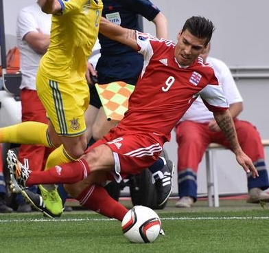 Daniel da Mota